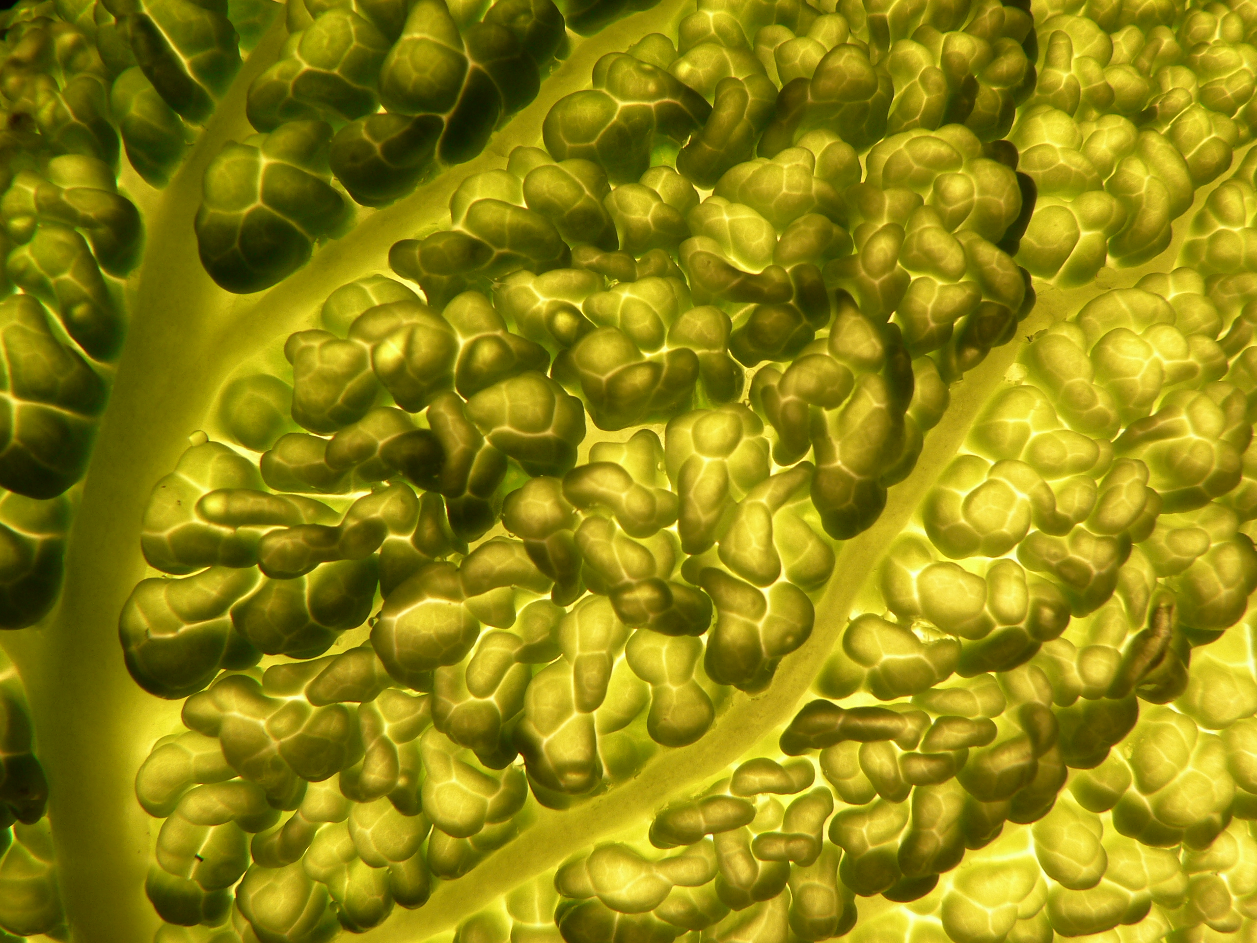 Savoy cabbage held in front of halogen light